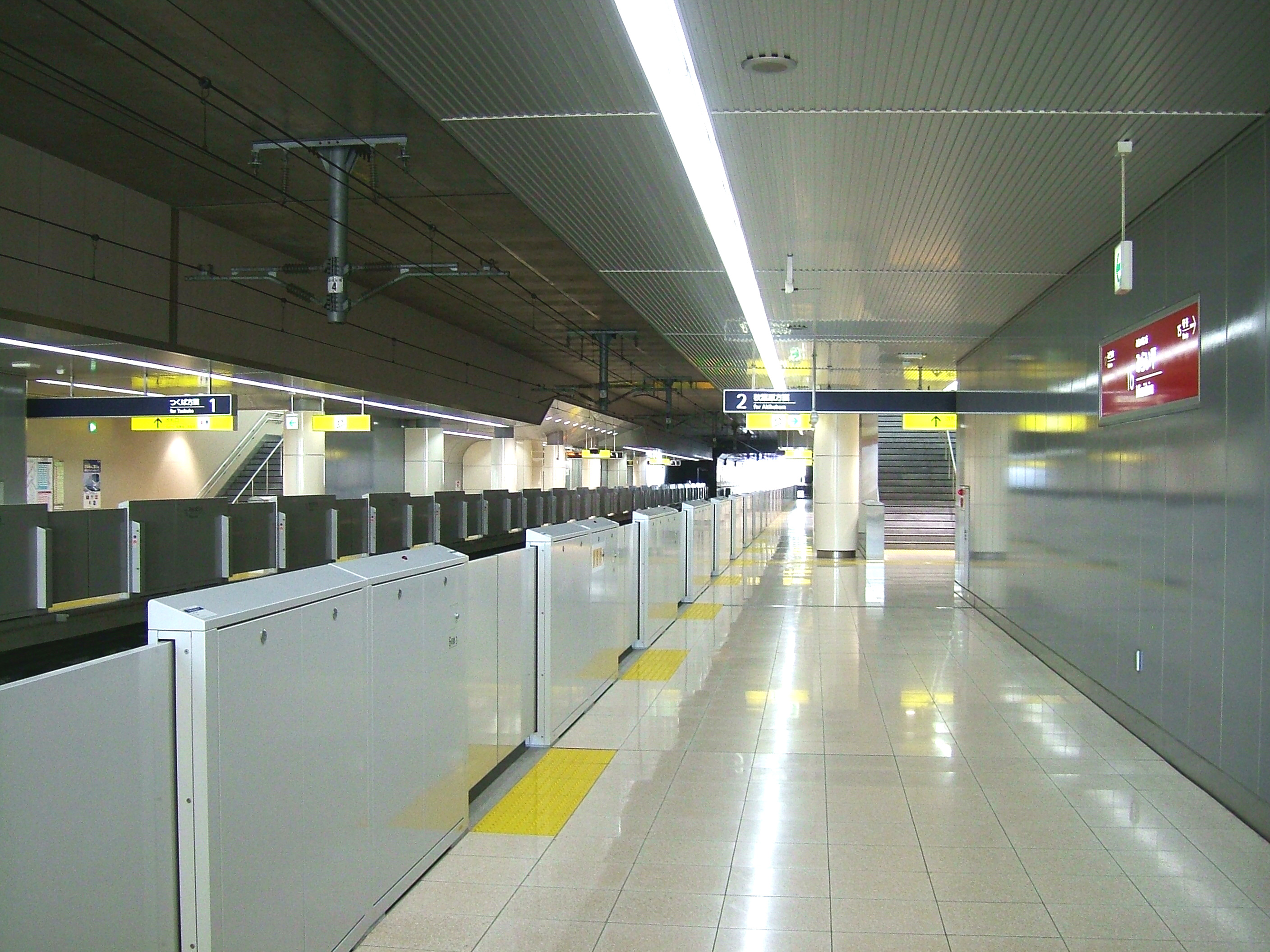 Miraidaira Station platform (Tsukuba Express)